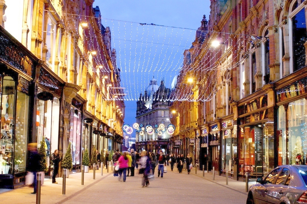 king edward street leeds taken at Christmas